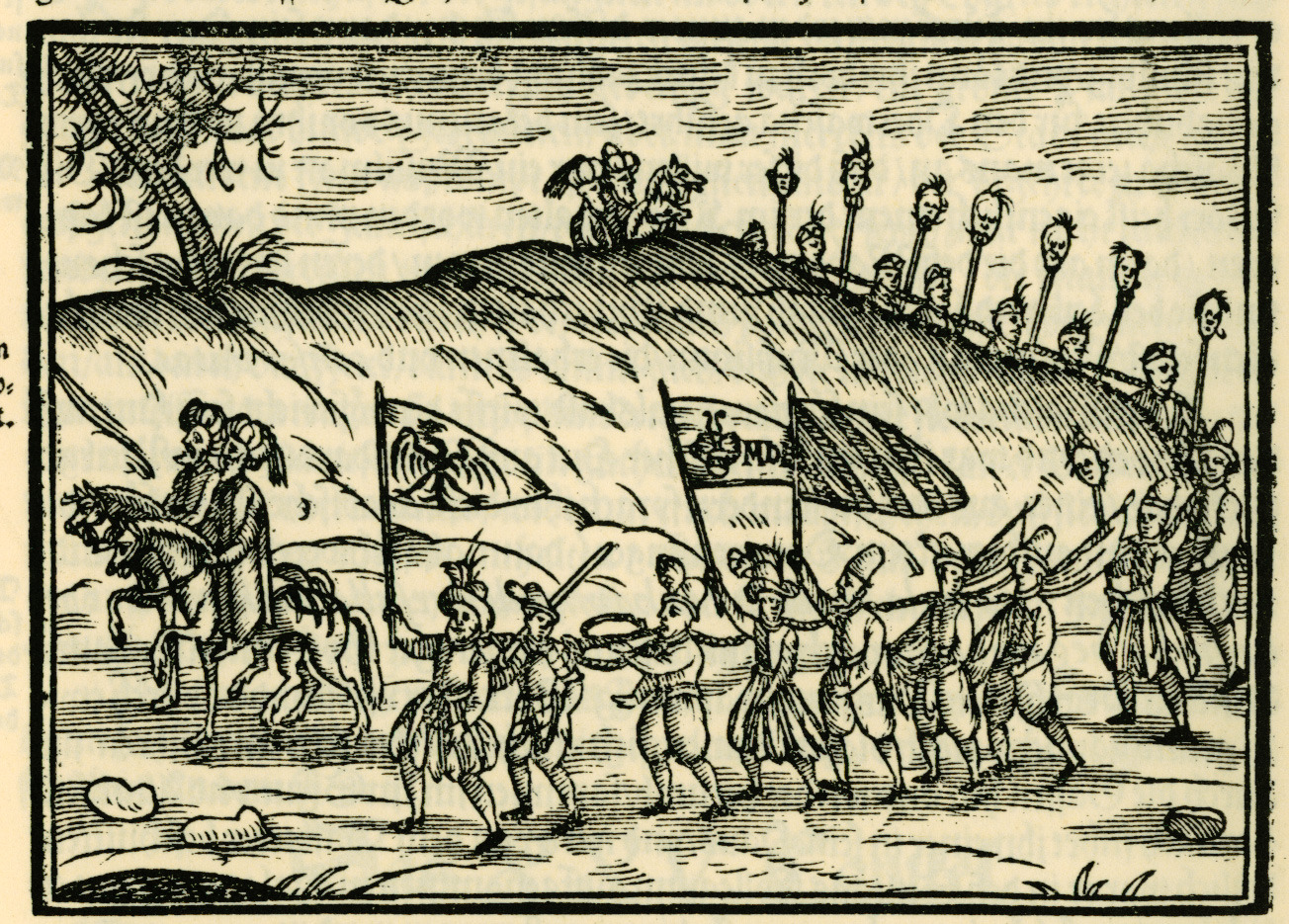 Salomon Schweigger. Ein newe Reiss Beschreibung auss Teutschland nach Constantinopel und Jerusalem, Nuremberg / Graz, Johann Lantzenberger / Akademische Druck 1608